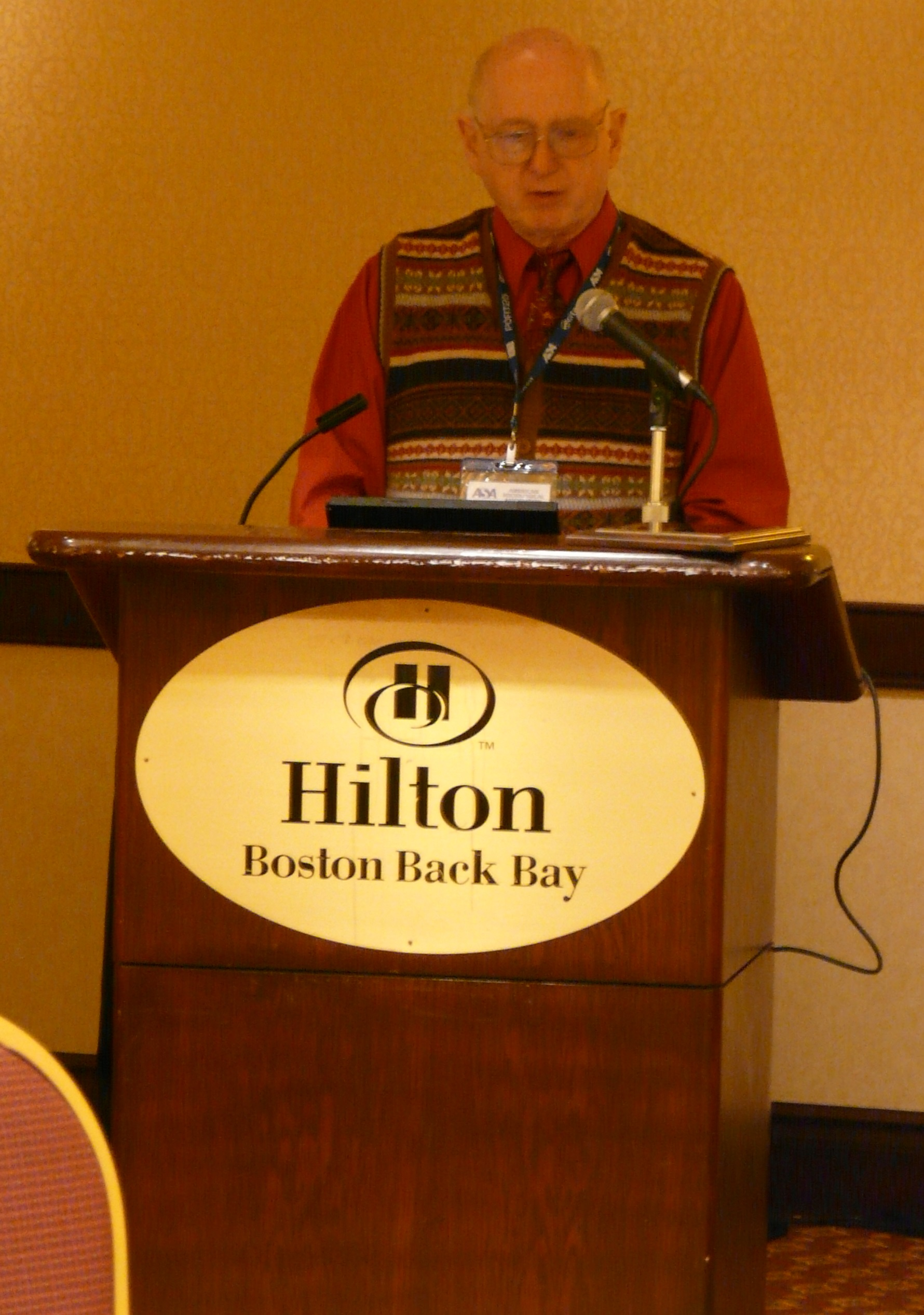 Boston. American Sociological Association conference. William Sims Bainbridge. Award ceremony for William Sims Bainbridge held by the CITASA section of ASA.